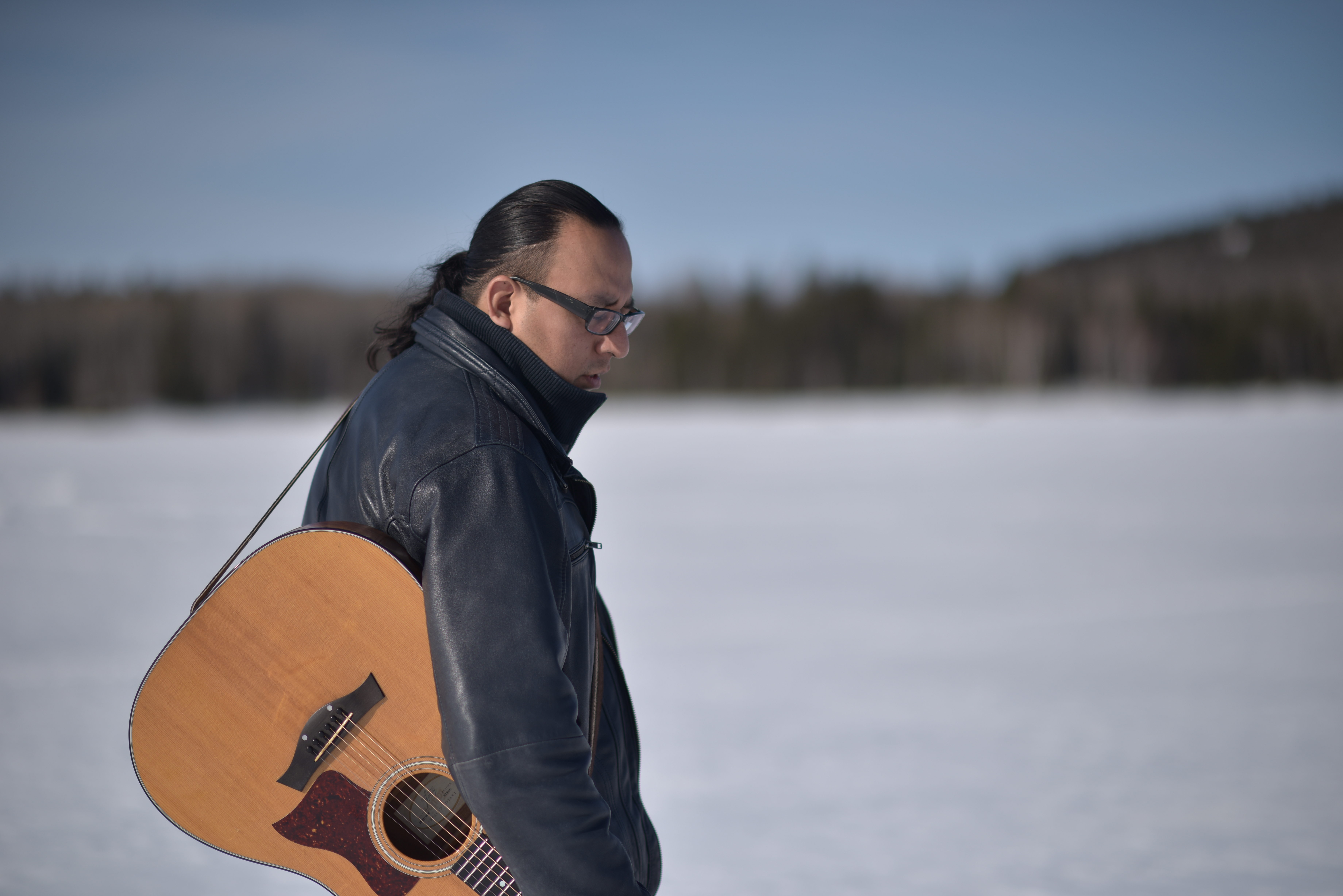 Atikamekw musician, Sakay Madon